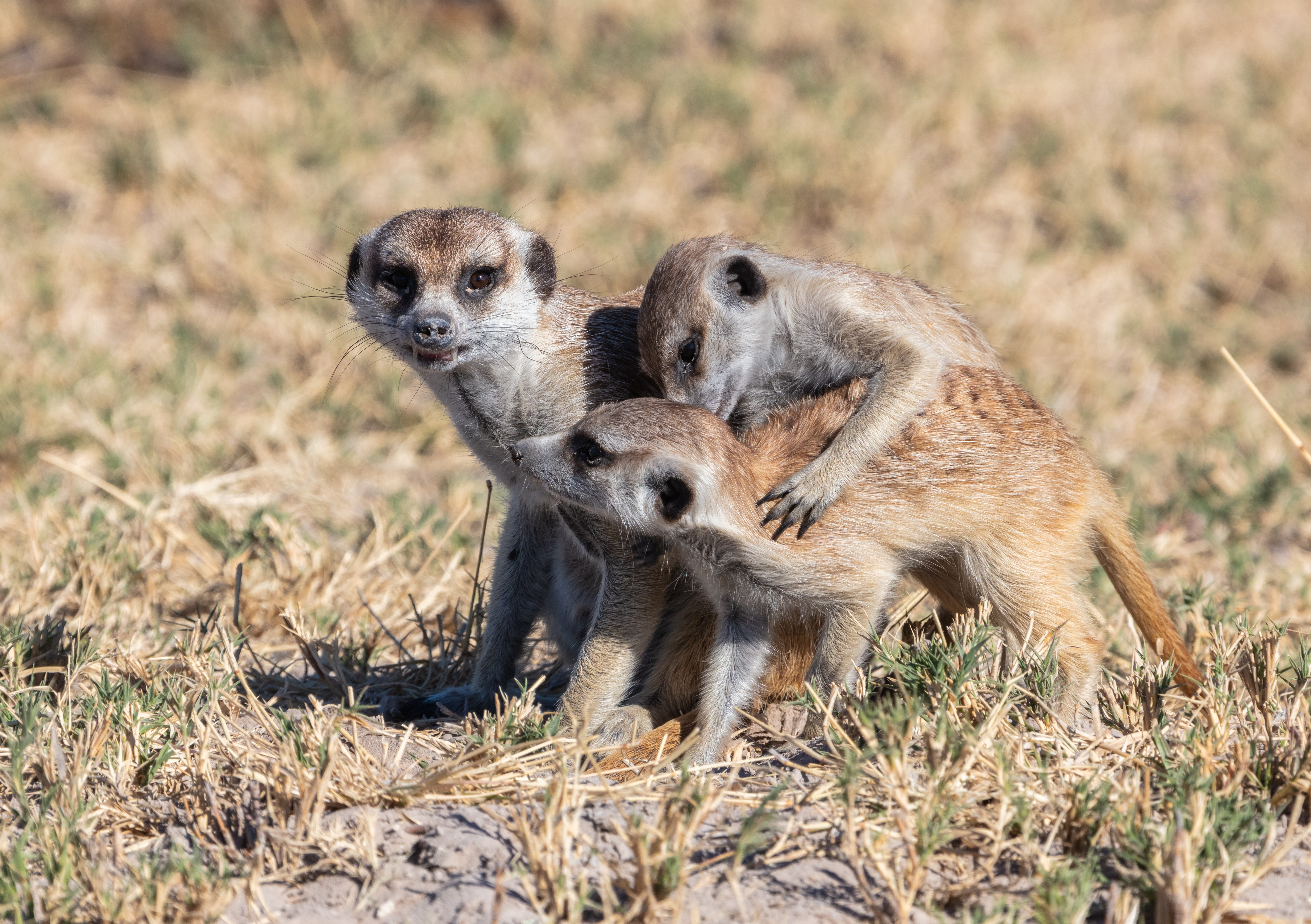 Group of meerkats (Suricata suricatta) playing, Makgadikgadi Pans National Park, Botswana.